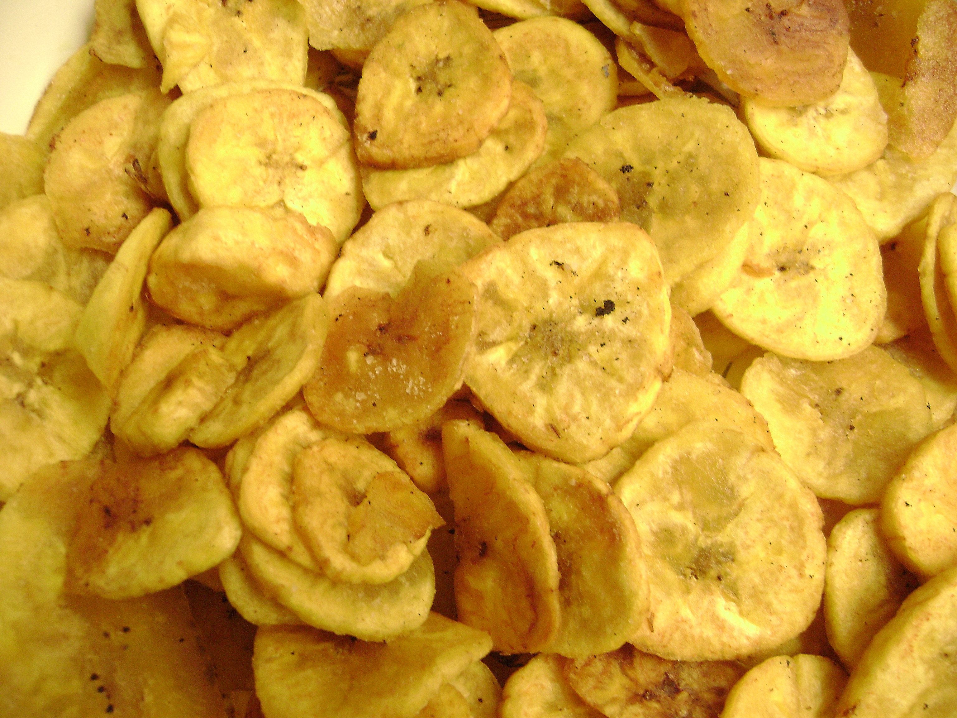 Chifles made at home. Lima, Perú.